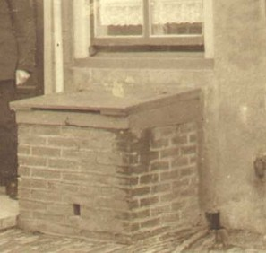 Cistern to store rainwater to use as drinking water outside a house on a Dutch island. Date ca 1920.